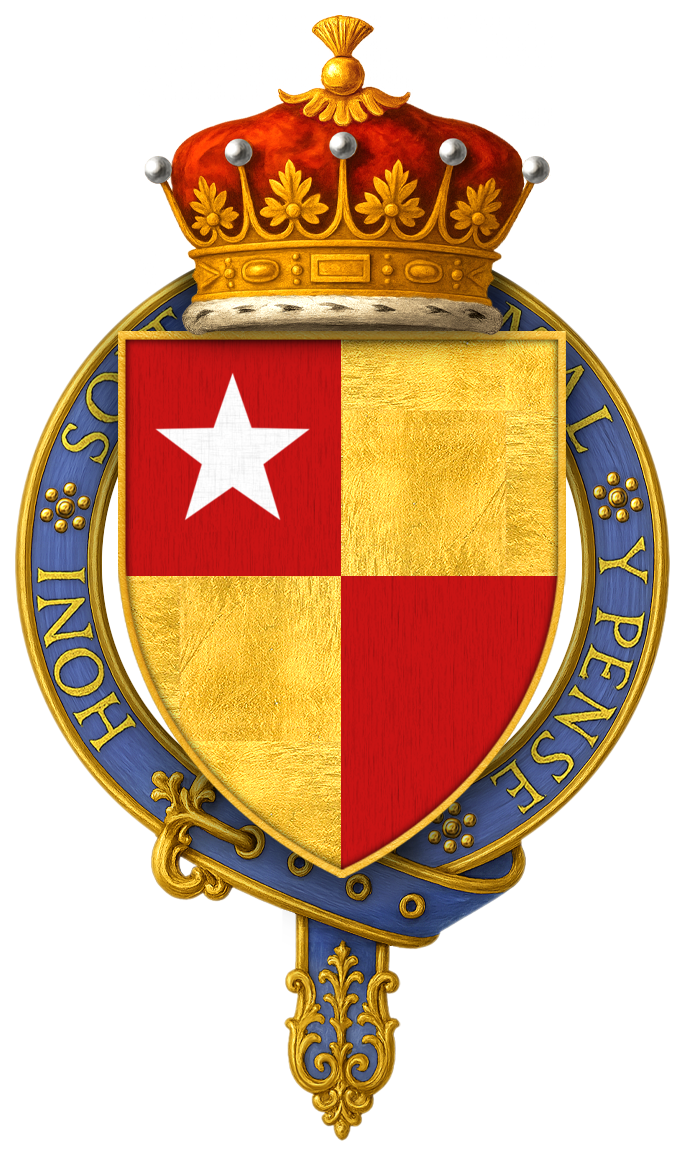 Coat of arms of Sir Richard de Vere, 11th Earl of Oxford, KG FOSTER, Joseph, Some Feudal Coats of Arms from Heraldic Rolls 1298-1418, London: James Parker & Co., 1902. “Vere Robert de, banneret, Earl of Oxford 1296 - bore, at the battle of Falkirk 1298, quarterly gules and or, a mullet argent. (F.) Nobility and Parly Rolls. See Monumental Effigy. Borne by Earl of Oxford (?Richard 11th Earl, K.G. 1415) at the siege of Rouen 1418. This coat is often erroneously blasoned the reverse.”